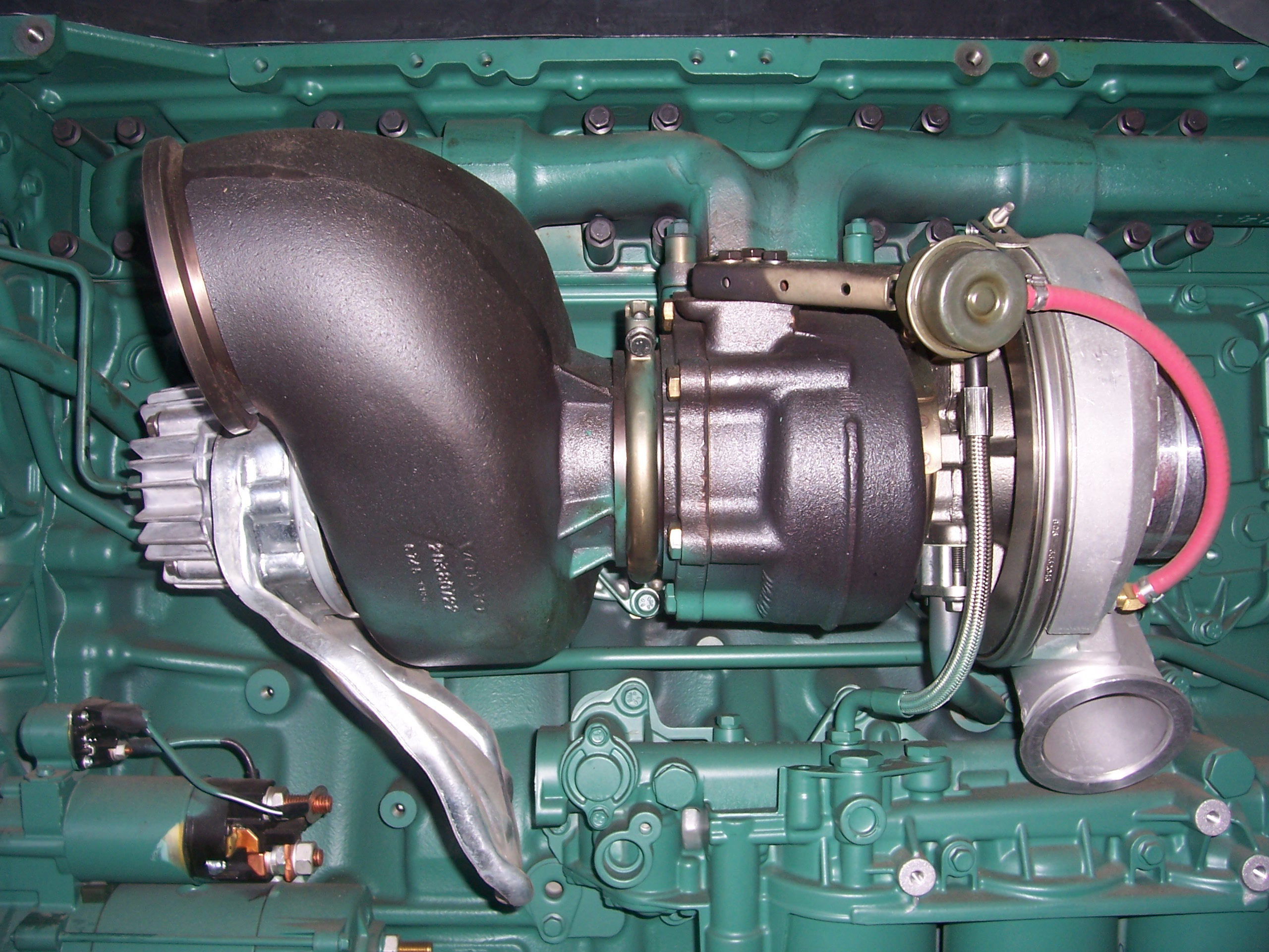 Close up of a turbocharger and an exhaust brake assembly on a truck engine